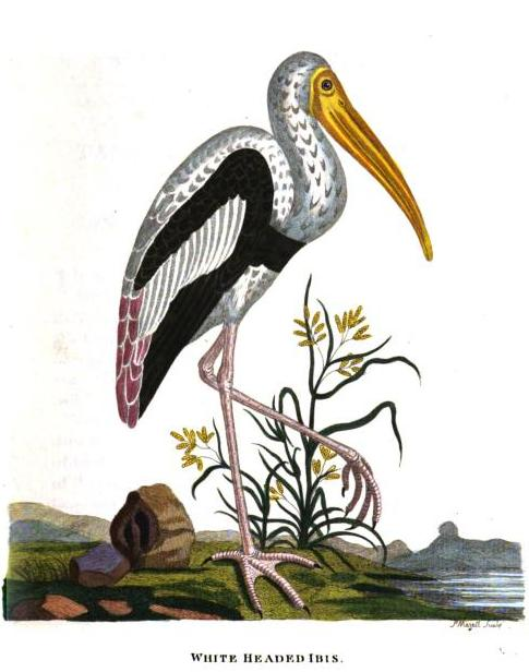 Painted Stork Ibis leucocephalus from Thomas Pennant's Indian Zoology